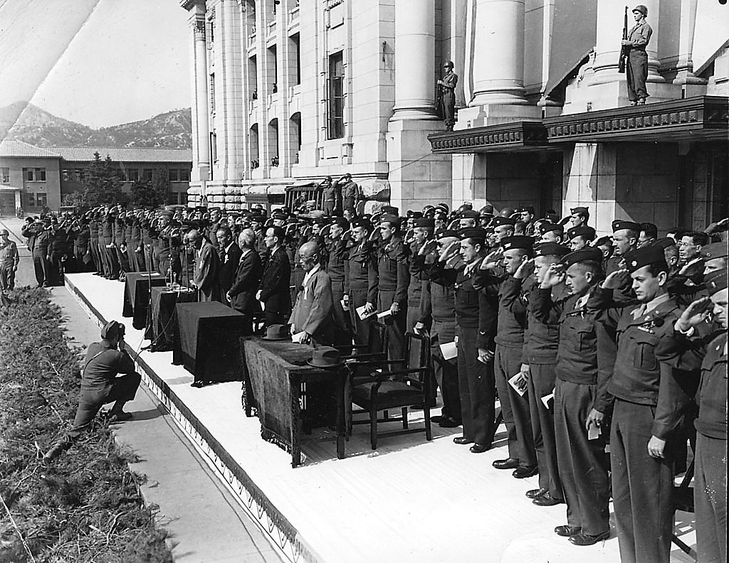 Welcoming ceremony of Syngman Rhee.